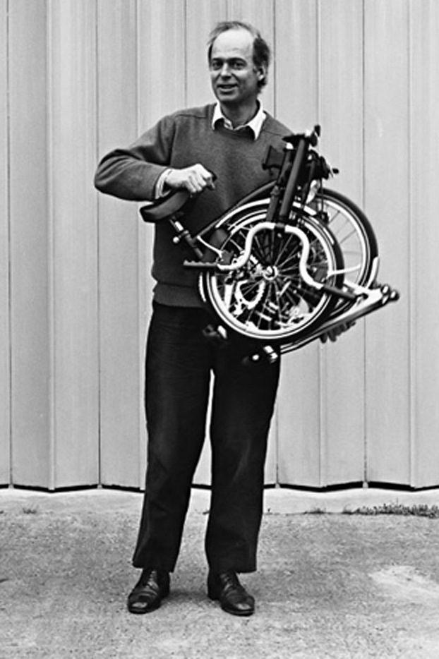 Andrew Ritchie with a folded Brompton bike